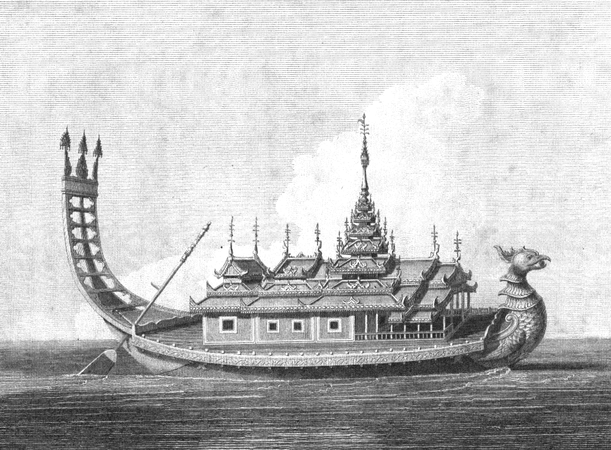 Shwe Phaungdawgyi (ရွှေဖောင်တော်ကြီး), or Royal Golden Barge.မြန်မာဘာသာ: ရွှေဖောင်တော်ကြီး